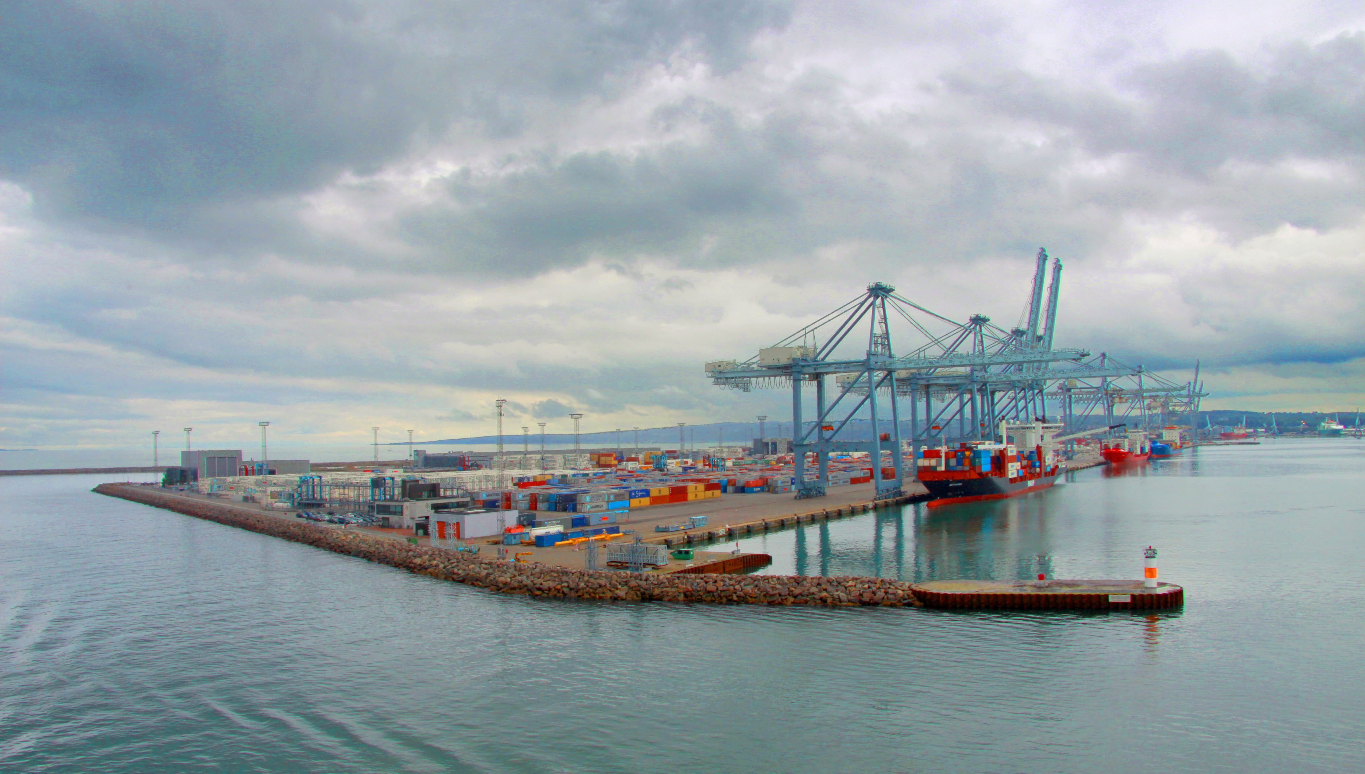 Aarhus Container port seen from sea side